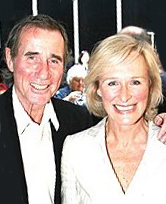 Jim Dale and Glenn Close performing Busker Alley, 2006. I made this photo.